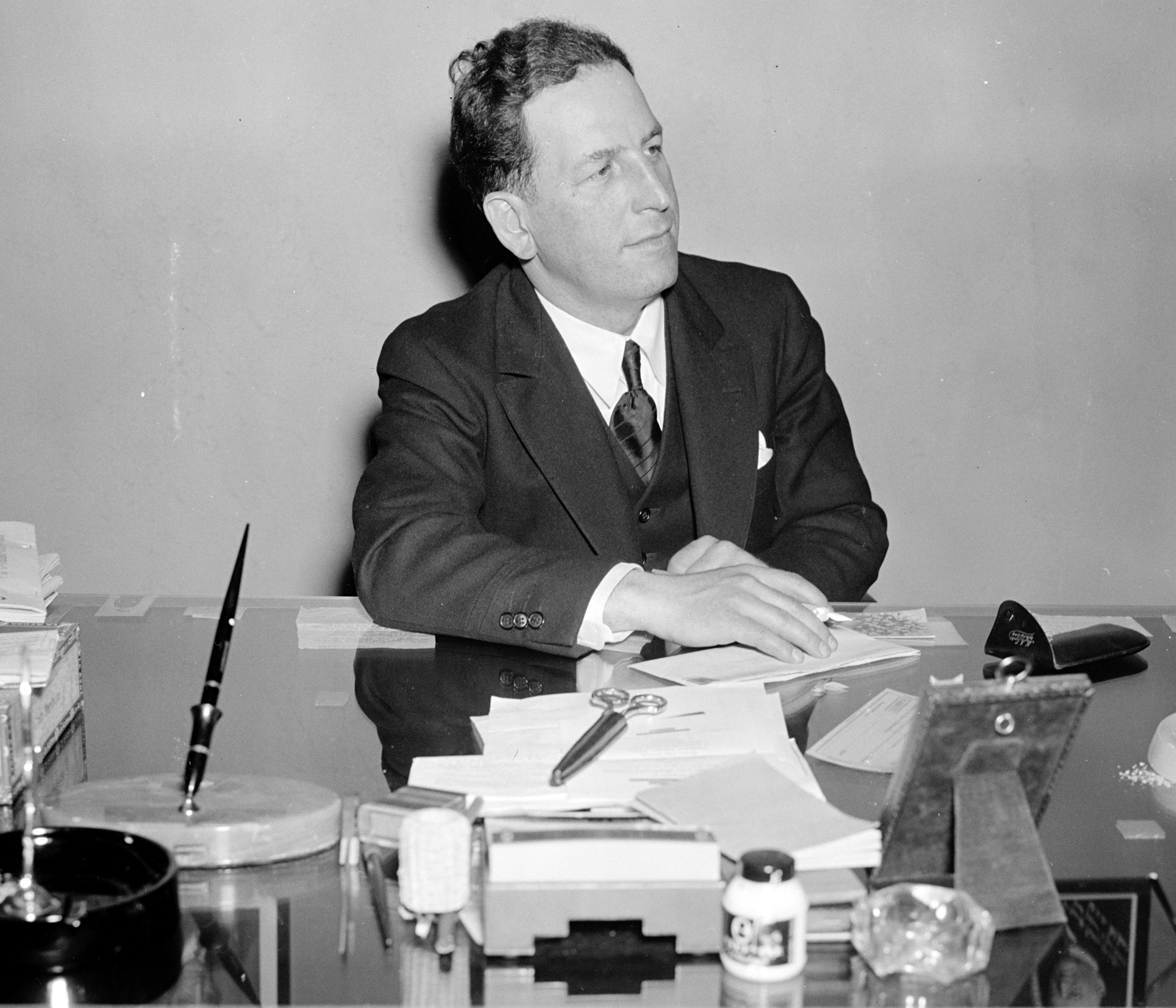 Alphonse Roy, US Representative from New Hampshire, in his congress office